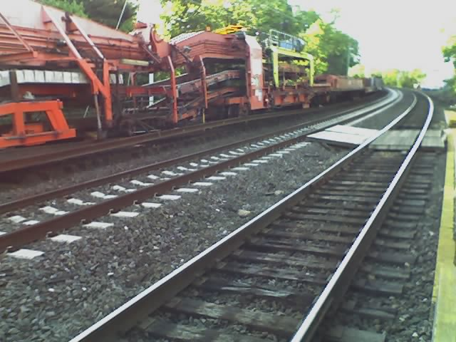 Photo taken by User:Spikebrennan near Rosemont on May 4, 2006.